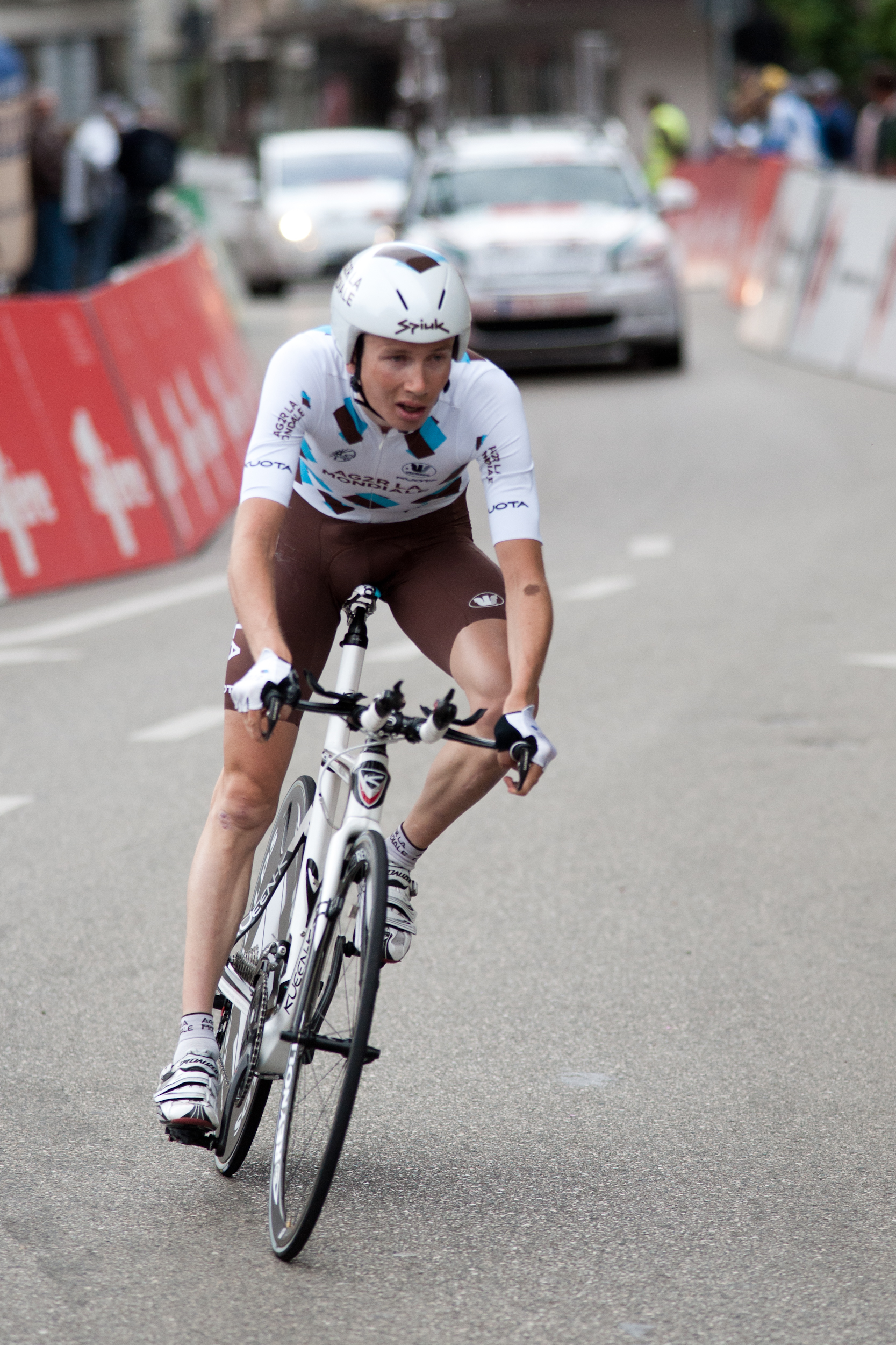 René Mandri during the 3rd stage of the Tour de Romandie 2010.